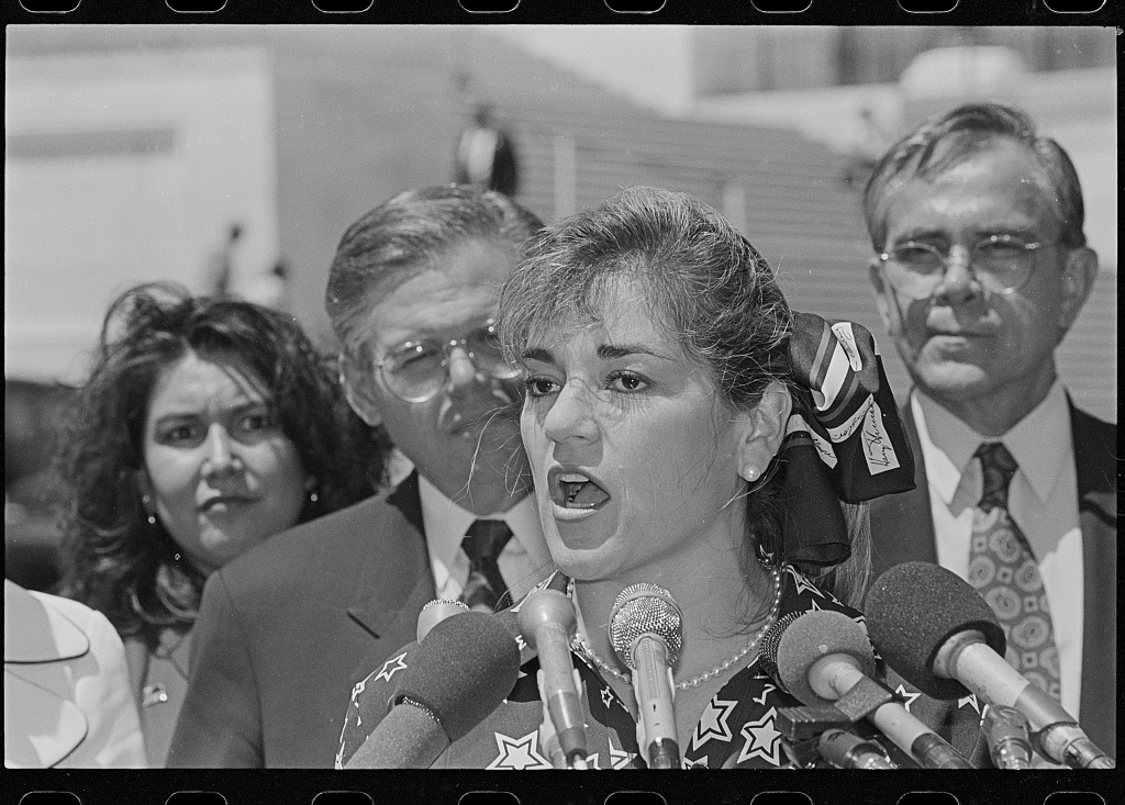 Representative Loretta Sanchez speaking at microphone with others behind her at a Congressional Hispanic Caucus press conference outside the U.S. Capitol